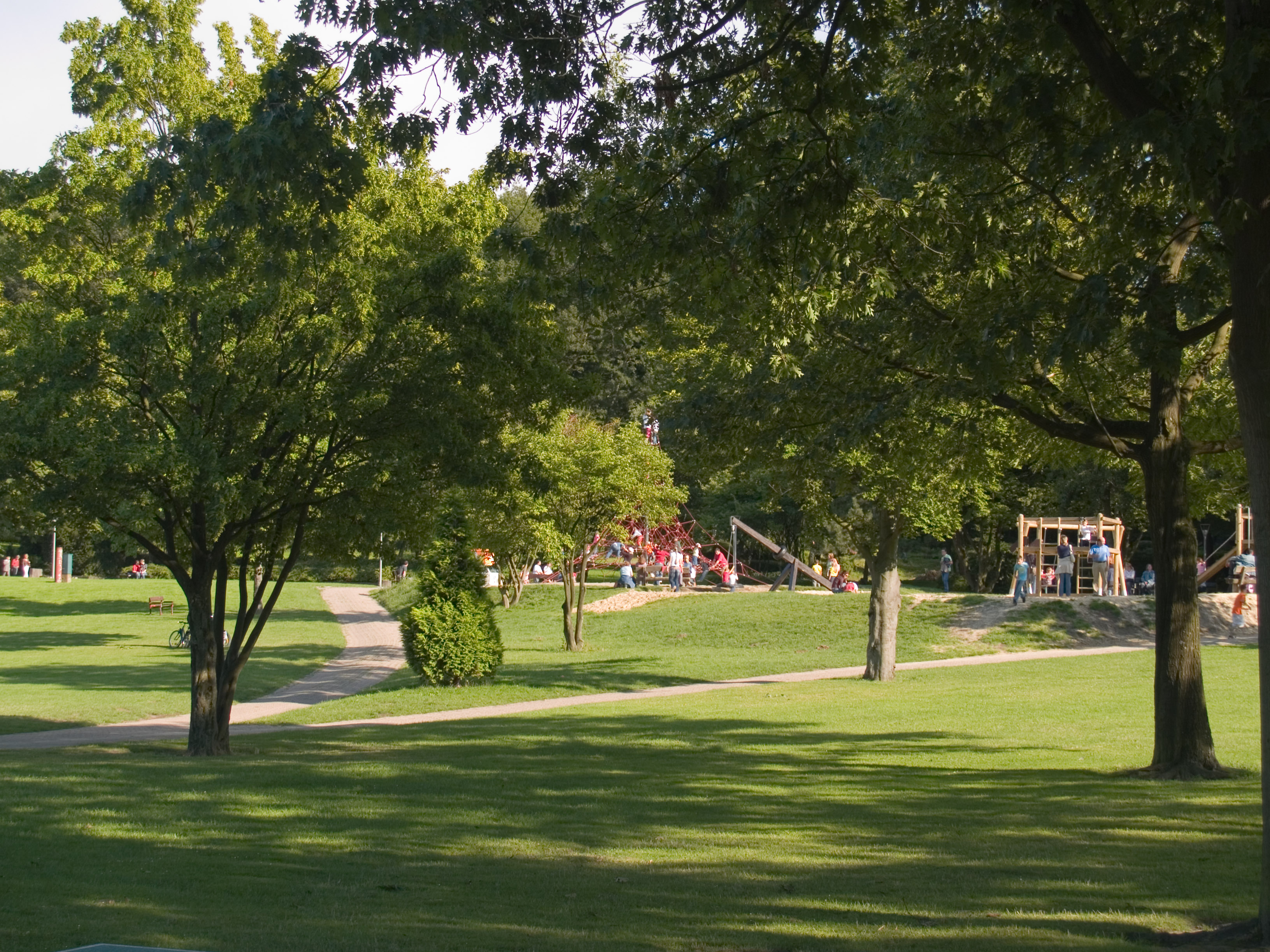 Part of the Gysenberg Park in Herne, Germany